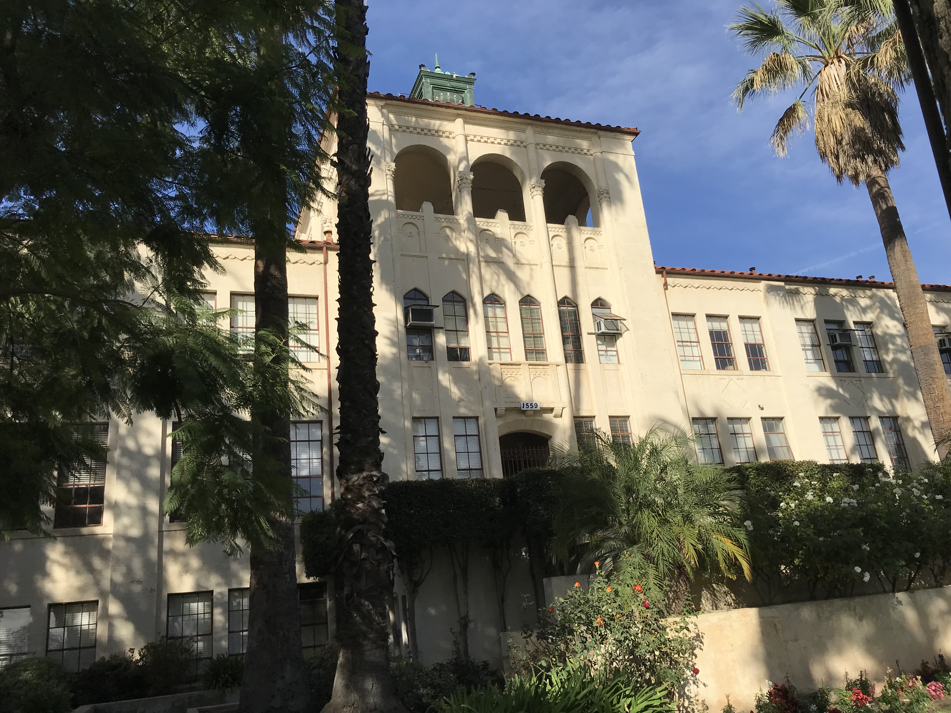 William Carey International University (formerly the grounds of Nazarene University), Pasadena, California.